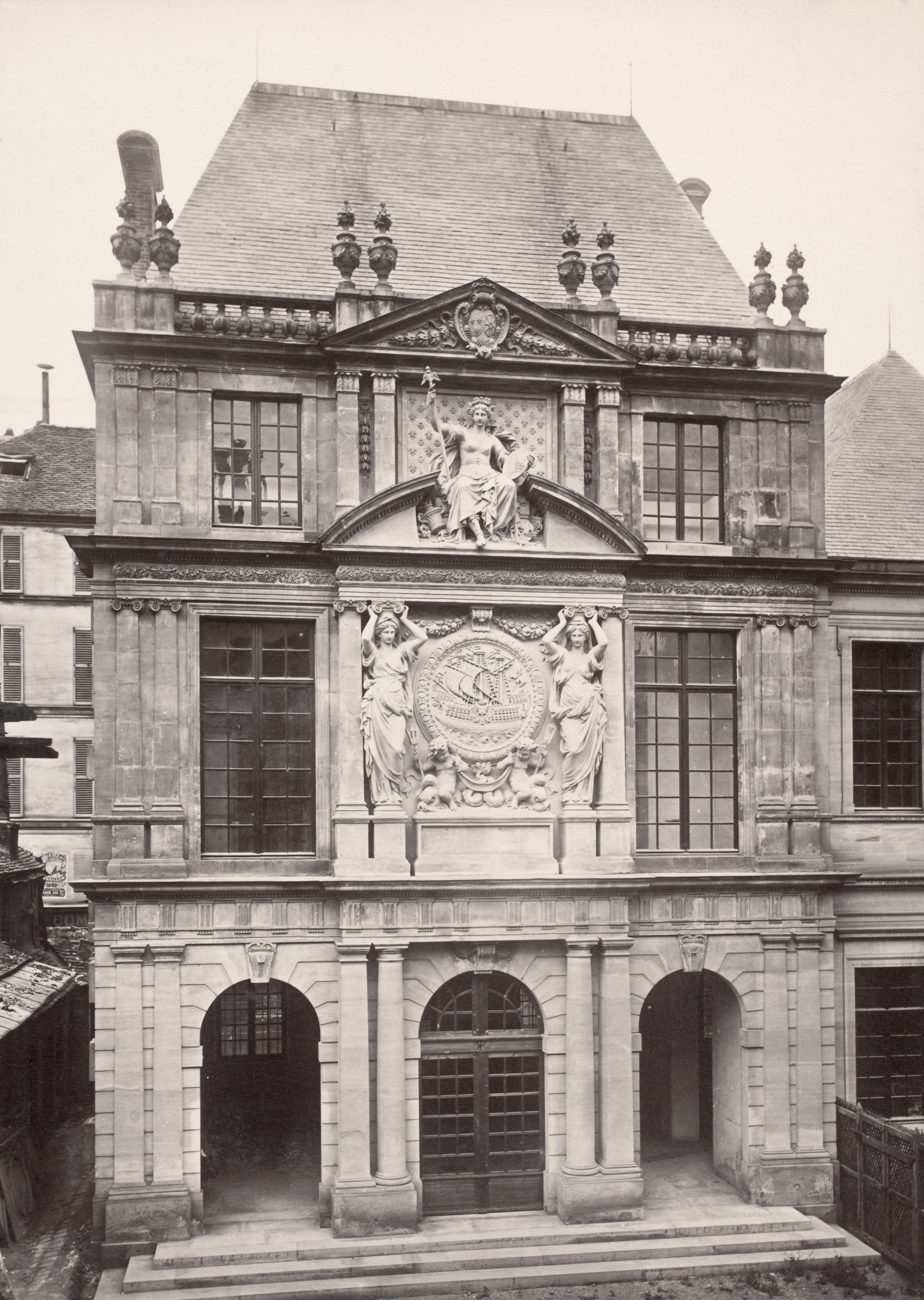 Elevated view of facade of three storey building, three arched entrances, double pillars flanking middle door support a coat of arms of Paris with classical style statues and double pillars supporting a classical style female figure seated in broken pediment.